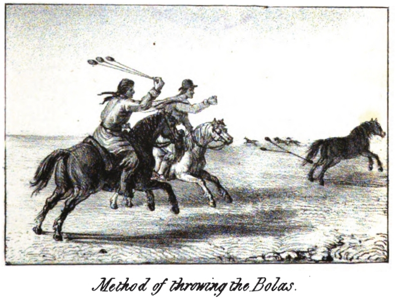 "Method of throwing the Bolas", during, in Travels in Chile and La Plata: including accounts respecting the geography, geology, statistics, government, finances, agriculture, manners, and customs, and the mining operations in Chile (book)